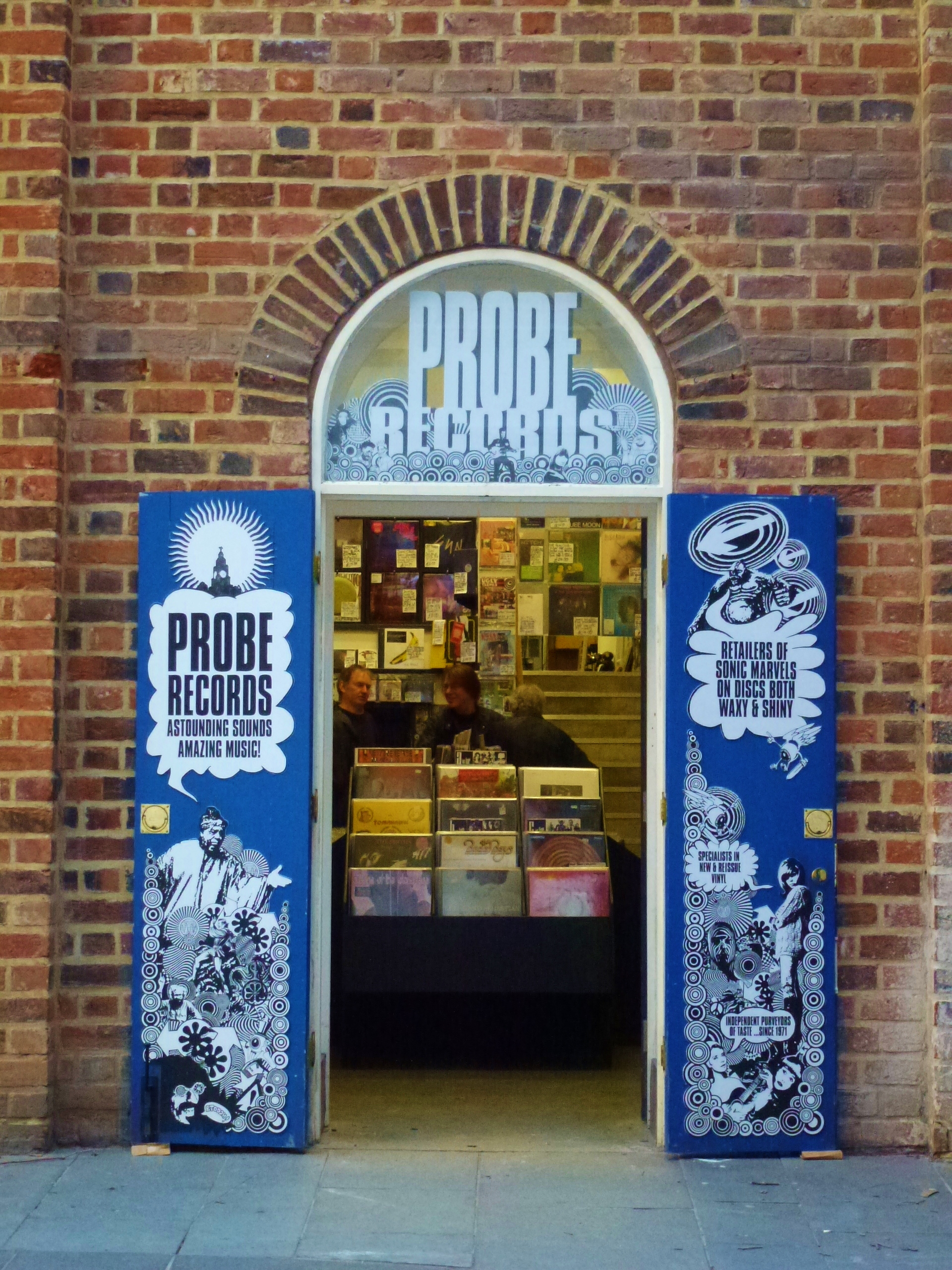 Probe Records, School Lane, Liverpool, UK